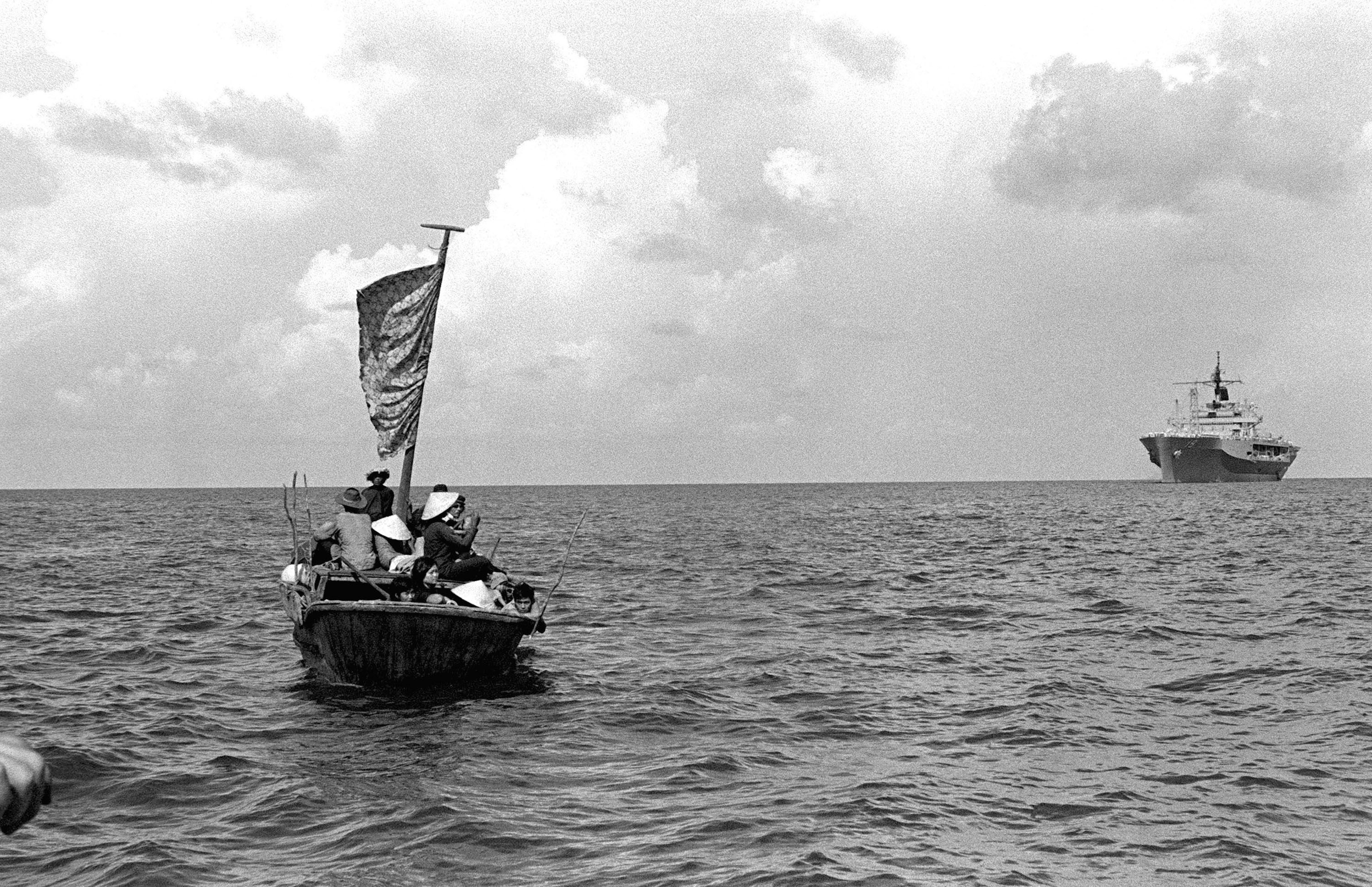 A 35 foot fishing boat approaches the amphibious command ship USS BLUE RIDGE (LCC 19). The BLUE RIDGE rescued 35 refugeees 350 miles northeast of Cam Ranh Bay, Vietnam, after they had spend eight days at sea in the boat.